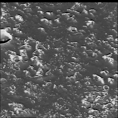 Callisto's Valhalla impact structure by Galileo, from NASA Planetary Photojournal